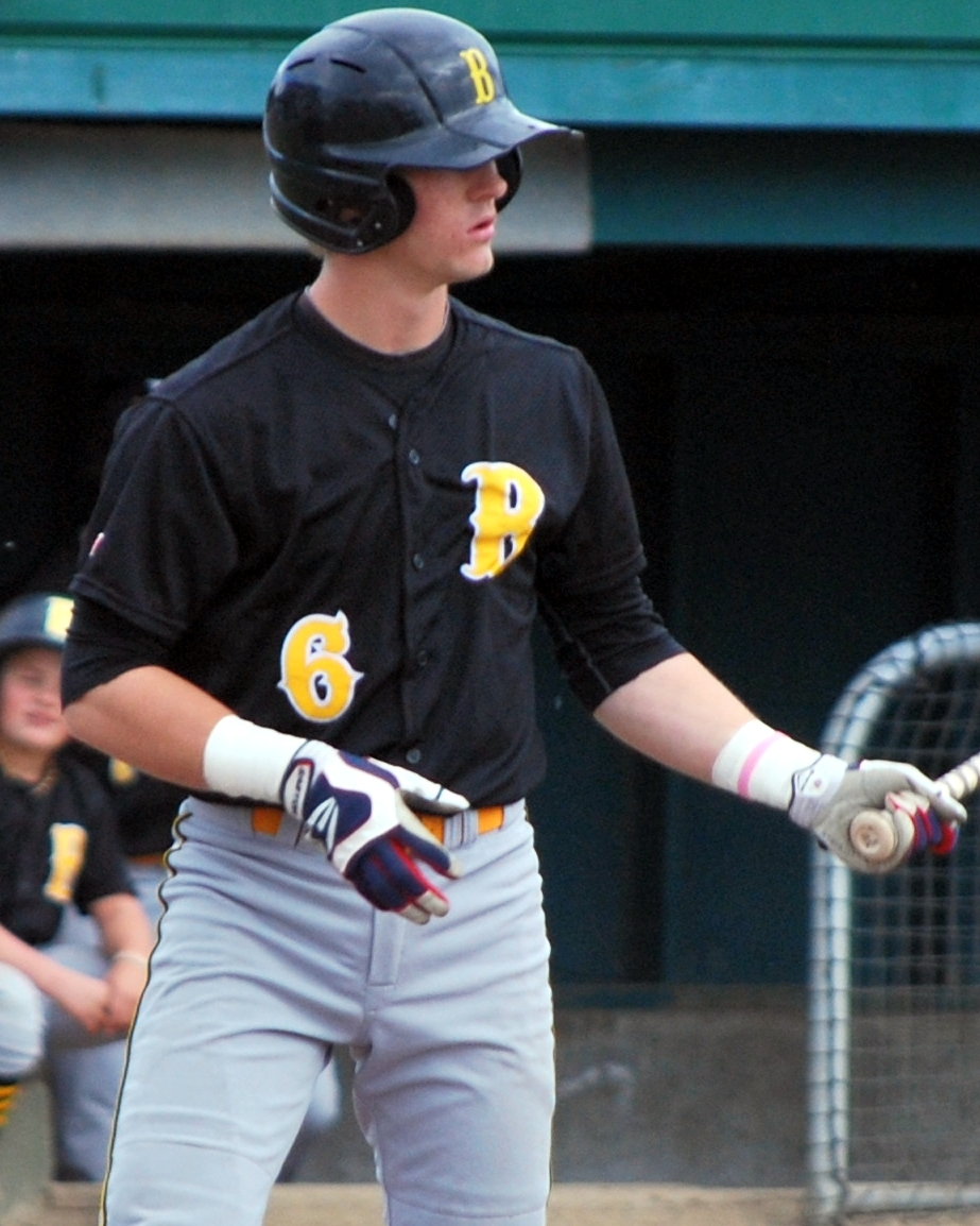 Taylor Ward bats for the Anchorage Bucs during a game in 2013